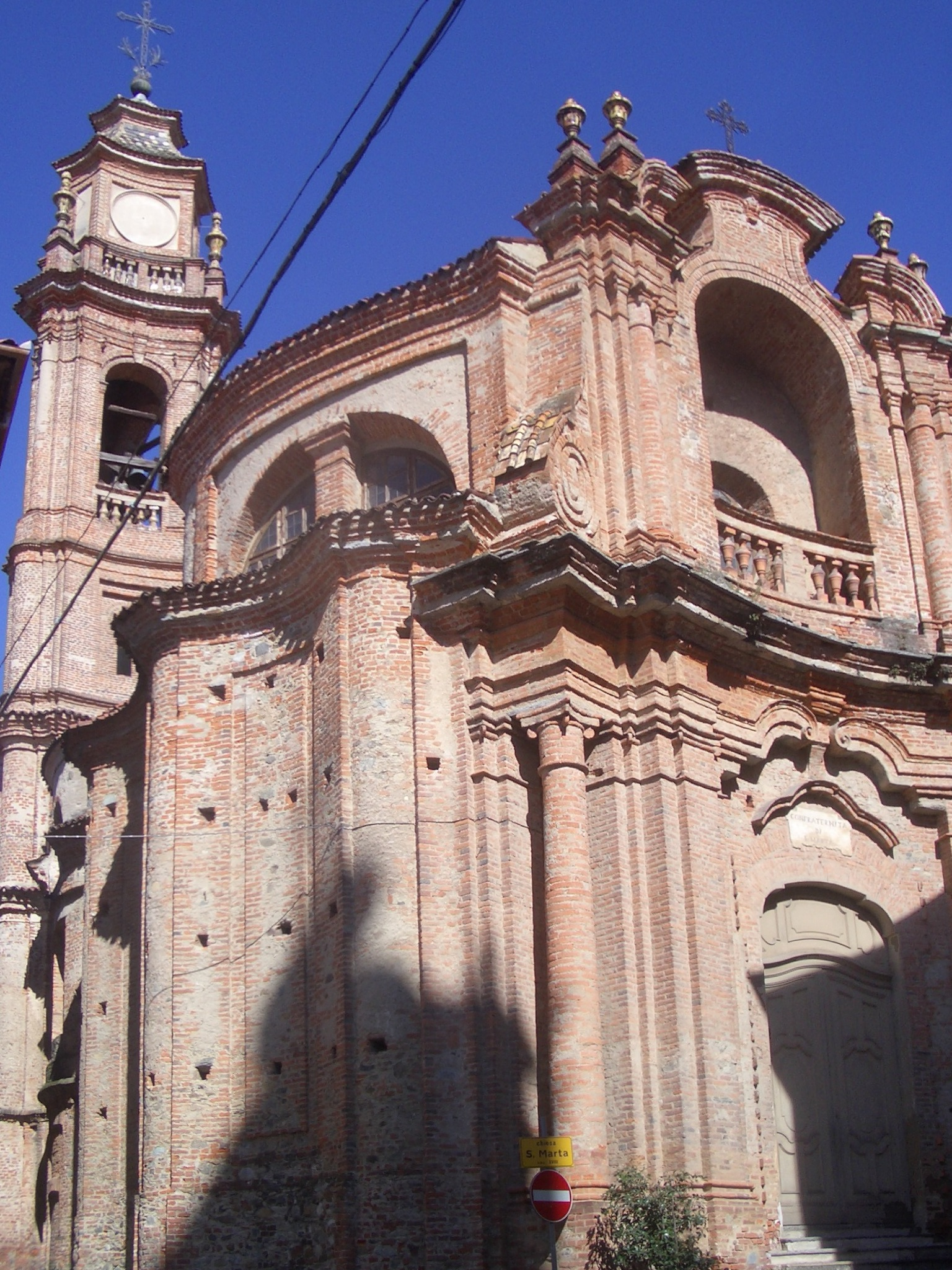 Agliè, Santa Marta Church, Baroque architecture, ca. 1730 (Name of the Architect: Costanzo Michela (Agliè 1689, Agliè 1754)